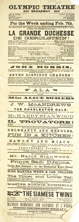 Scan of a broadside for Olympic Theatre presenting Offenbach's "La Grande Duchesse de Gerolstein" February 7, [1873].